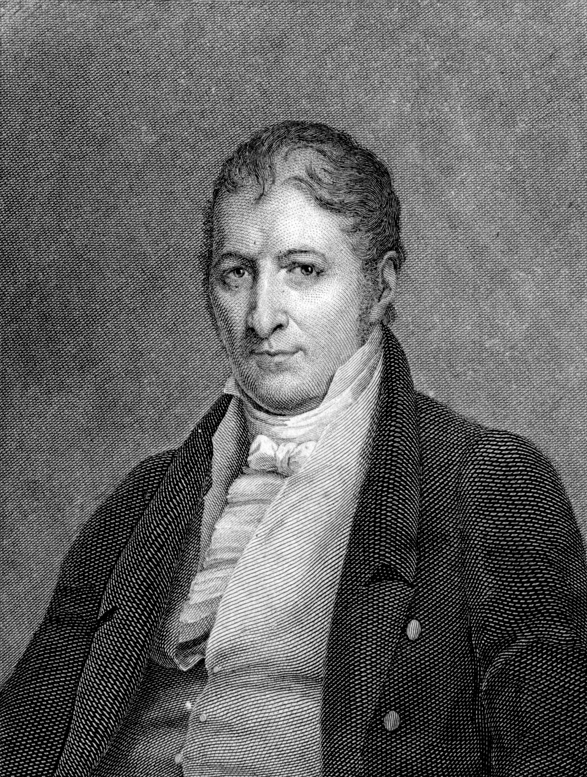 An Engraving, based on a painting of Eli Whitney, an American inventor